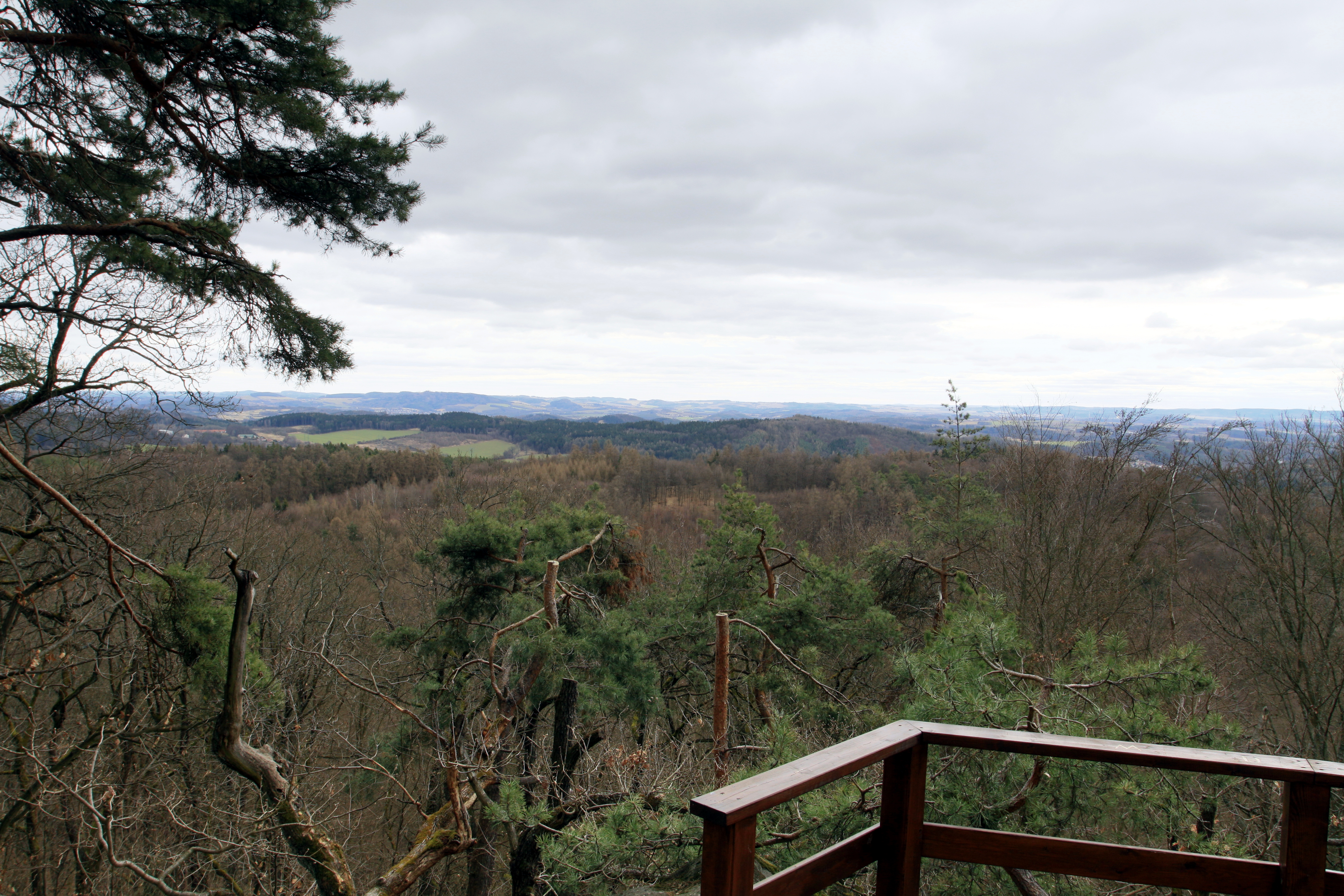 Panská skála view in the nature reserve Grabla near Krhanice village in Benešov District, Czech republic